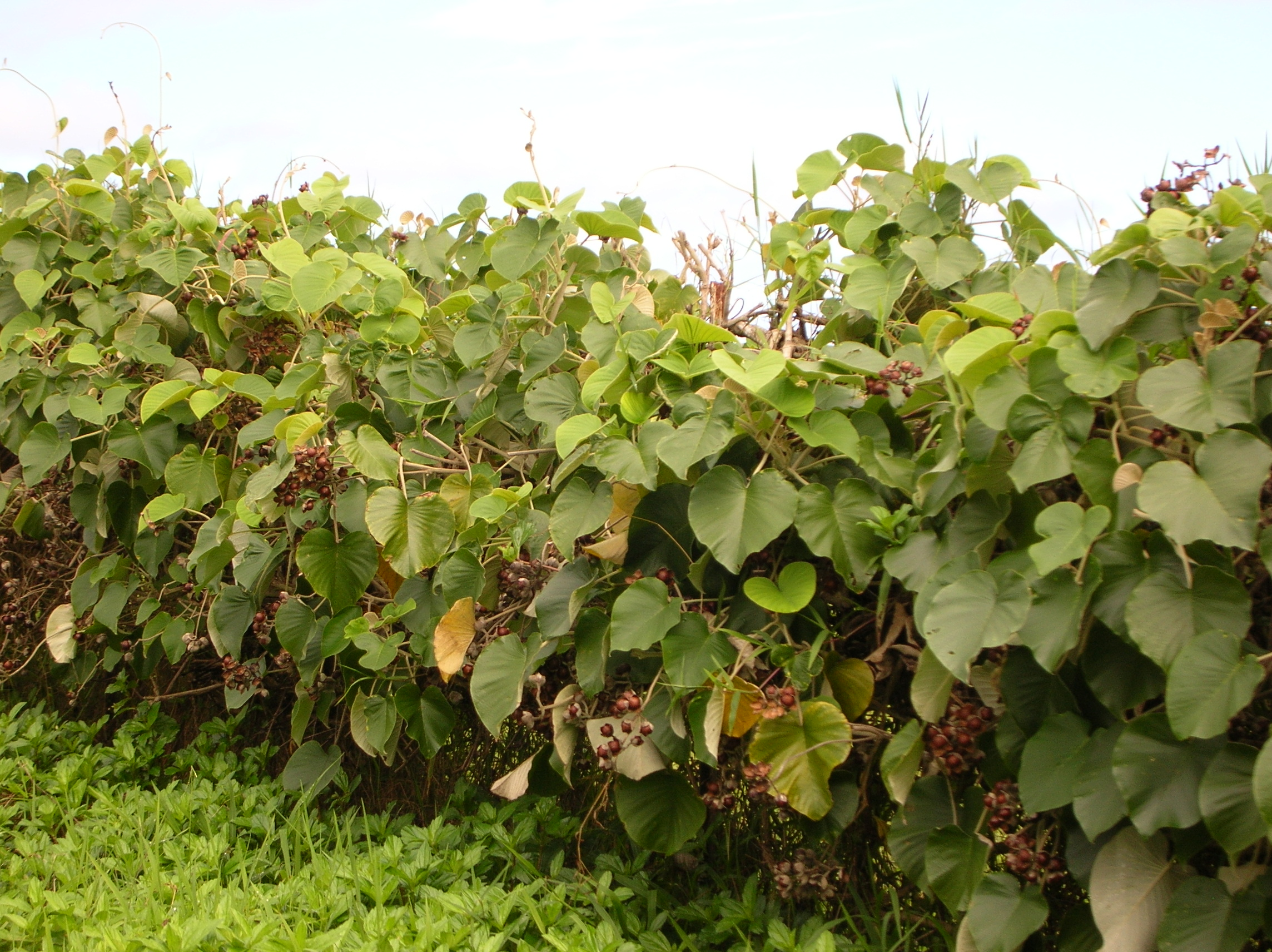 Argyreia nervosa (habit). Location: Maui, Hana Hwy Kailua